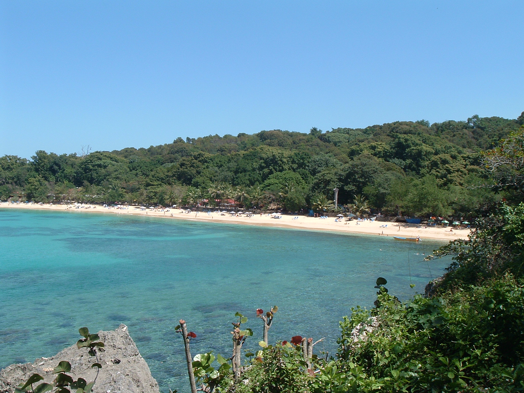 Sosua Beach